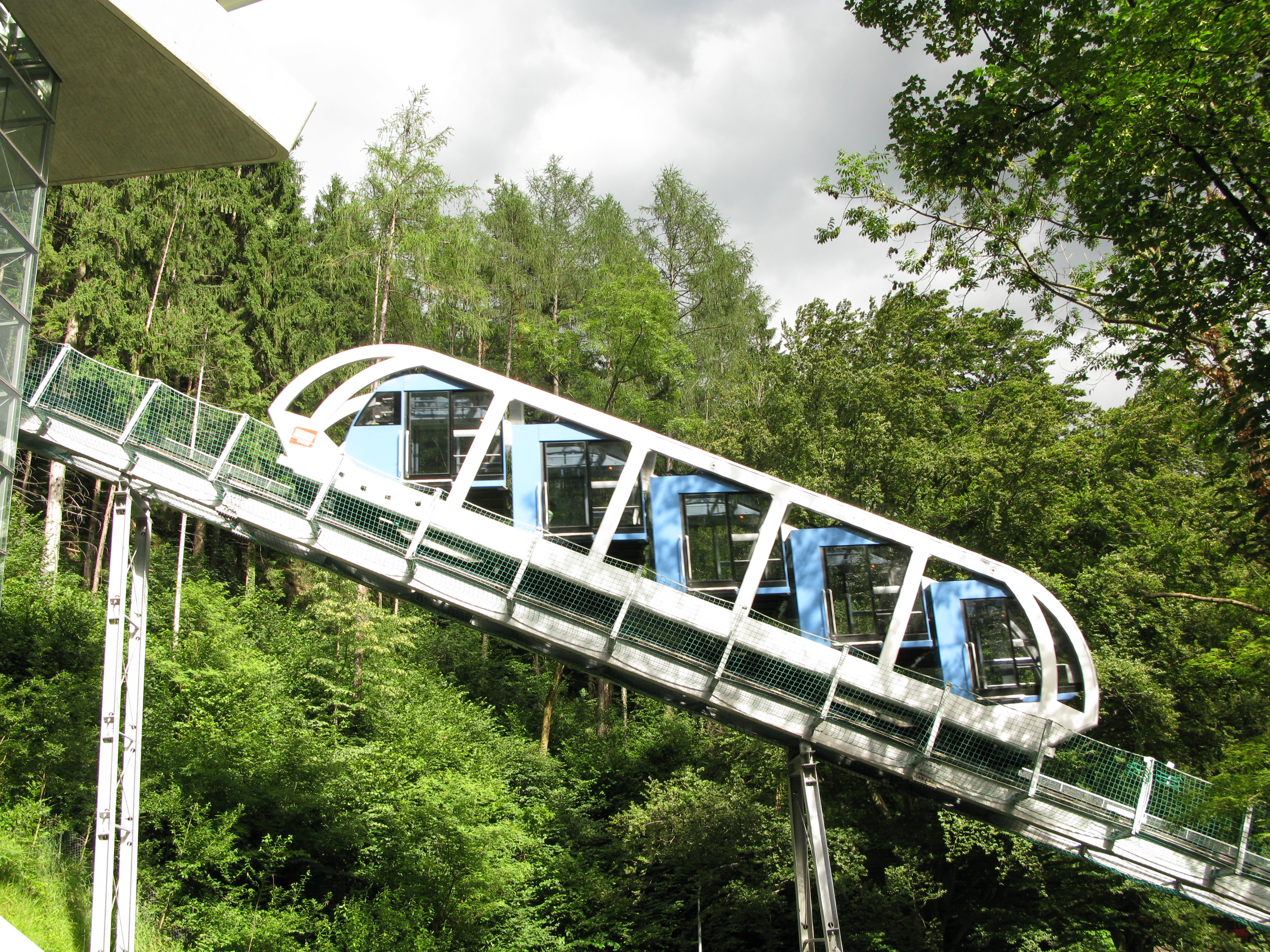 Hungerburg mountain railway by Minimetro. Innsbruck, Austria, 2011.